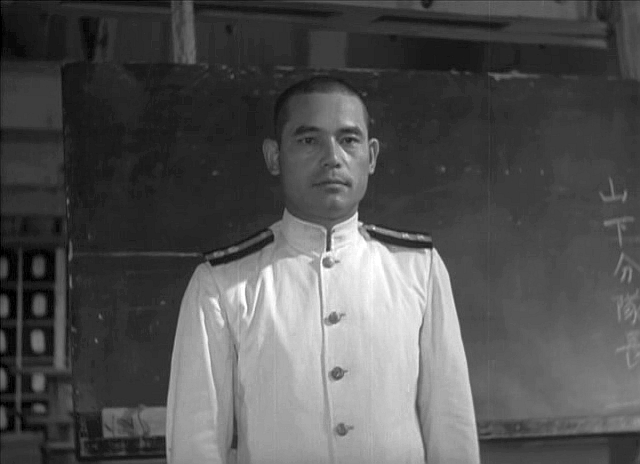 Susumu Fujita in Hawai Mare oki kaisen (ハワイ・マレー沖海戦) directed by Kajirō Yamamoto - 1942